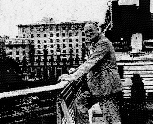 Sir Arthur Morse, K.B.E. (1892 - 1967), Chairman (1941 - 1953) and Chief Manager (1943 - 1953) of the Hong Kong Bank